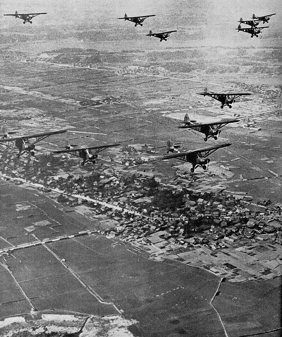 NSF (National Safety Force of Japan) Aviation School's practice planes flying in formations